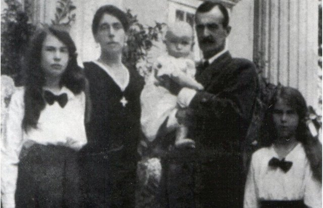 Grand Duchess Victoria Feodorovna with her husband and their three children.